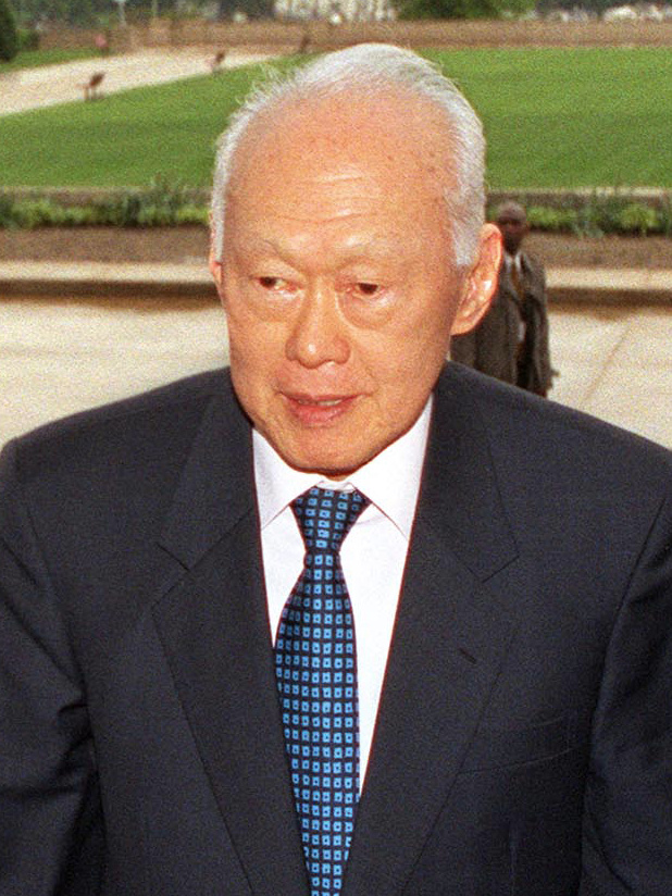 Senior Minister Lee Kuan Yew of Singapore, being escorted by United States Secretary of Defense Donald H. Rumsfeld through an honour cordon and into the Pentagon. They met to discuss bilateral security issues including the war on terrorism: see DefenseLINK news photos. US Department of Defense (2002-05-02). Retrieved on 2009-05-05.